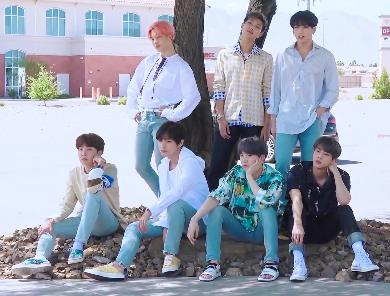 BTS during a photoshoot for Korea Dispatch in Las Vegas, May 2019